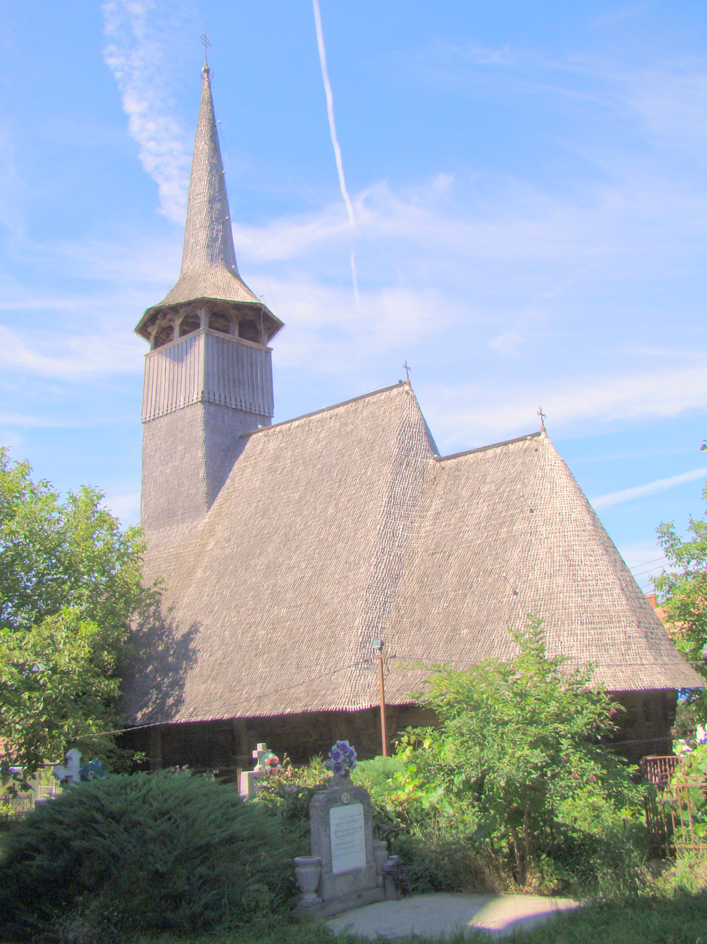 Wooden church in Tilecuș, Bihor county, Romania